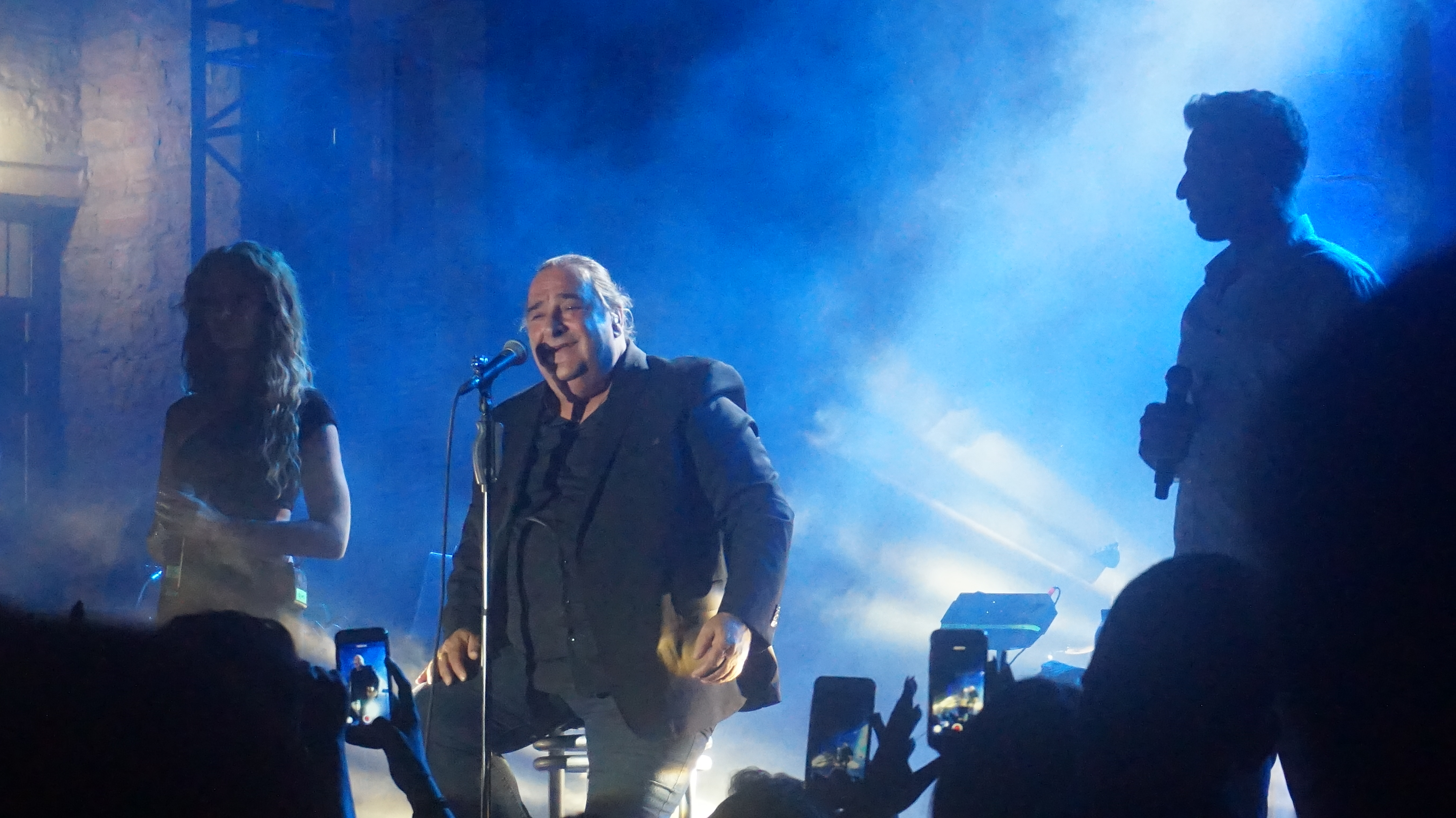 Vasilis Karras, Lofou